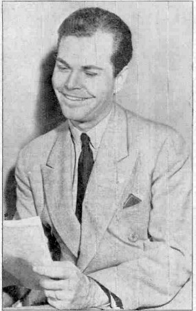 William Janney, star of the CBS radio program "Howie Wing", as shown in the November 26, 1938, issue of Radio Guide magazine.